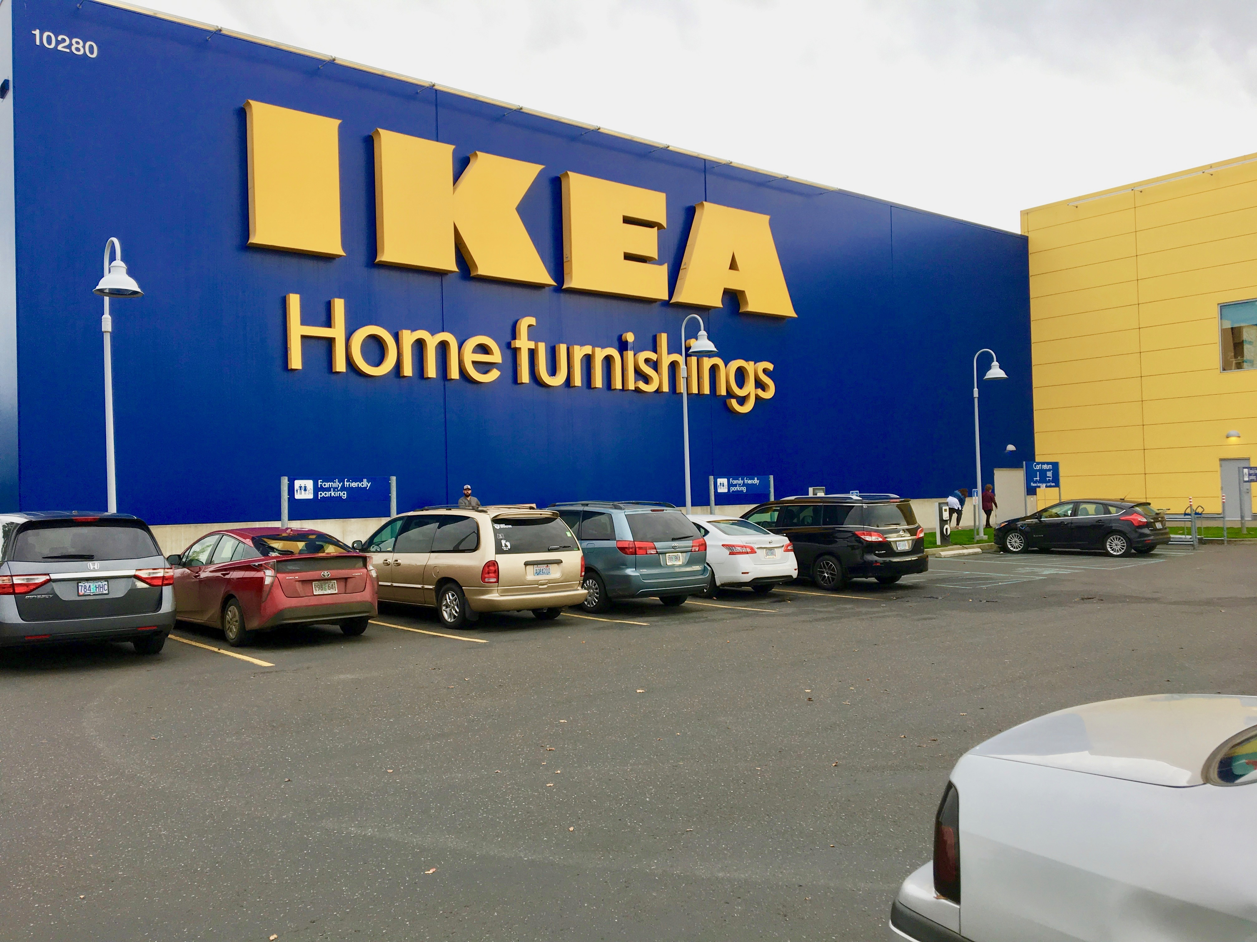 Ikea store in Portland, Oregon